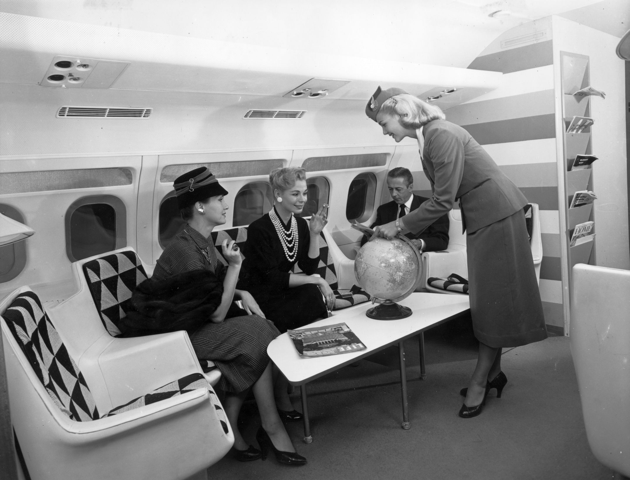 SDASM.TITLE: Convair 880, TWA, interior publicity photo, 8Jan58 SDASM.CATALOG: 01_00092681 SDASM.CORPORATION NAME: Convair SDASM.DESIGNATION: 880 SDASM.ADDITIONAL INFORMATION: Convair 880, TWA, interior publicity photo, 8Jan58 PUBLIC COMMONS.SOURCE INSTITUTION: San Diego Air and Space Museum Archive SDASM.TAGS: Convair 880, TWA, interior publicity photo, 8Jan58